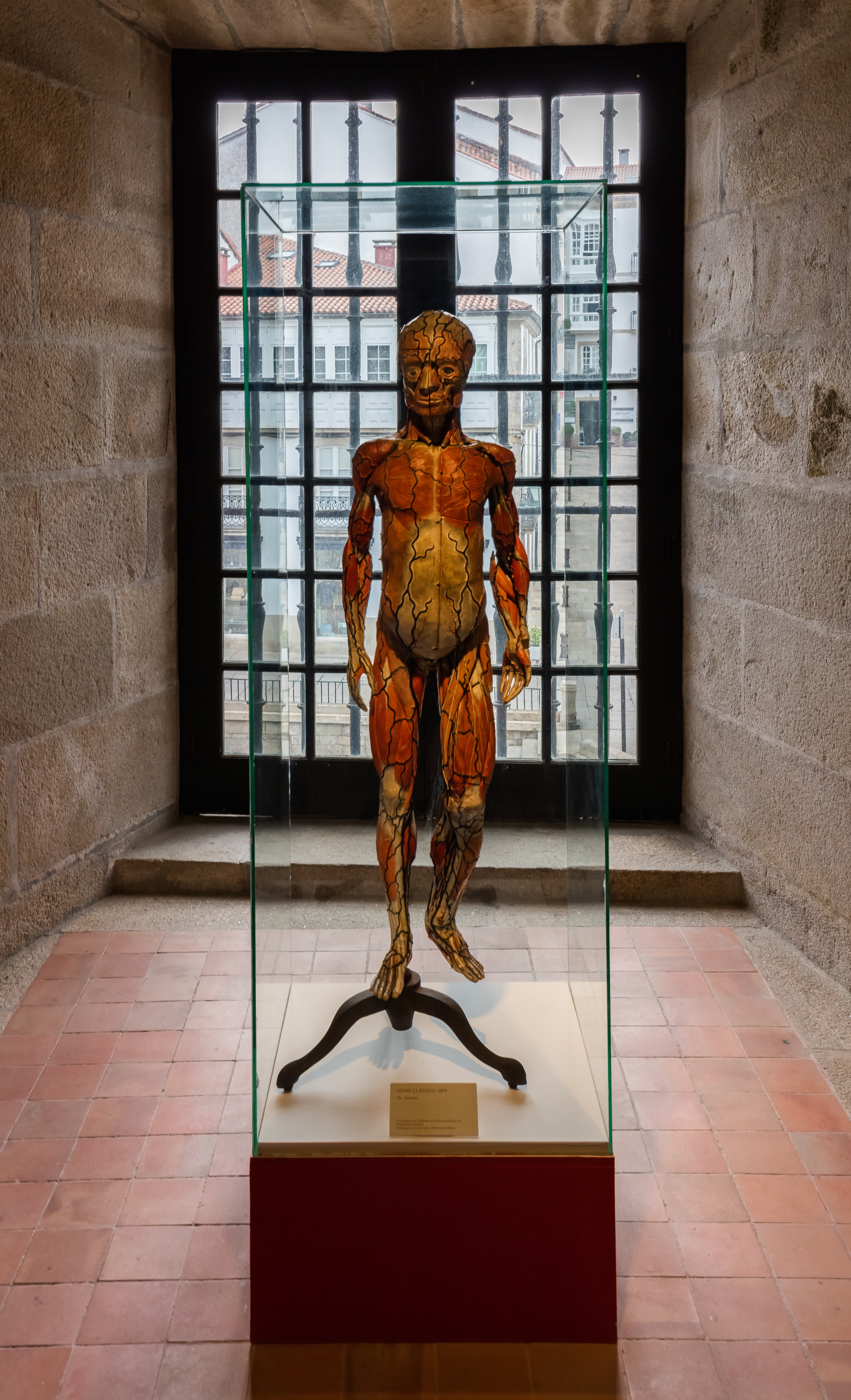 Human body in St Martin museum, Santiago de Compostela, Spain.